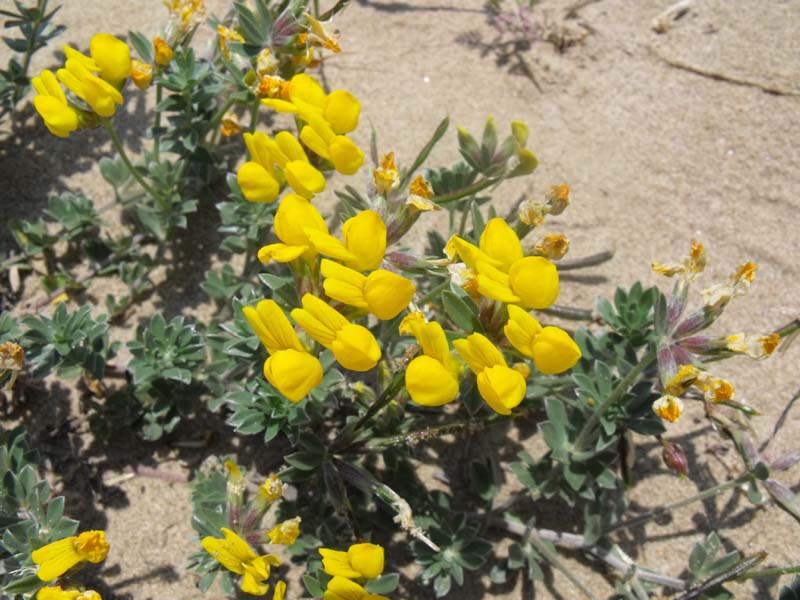 Medicago marina Photo taken on Gargano coastal dune system (Apulia, southern Italy). Photo by Massimilaino Marcelli.